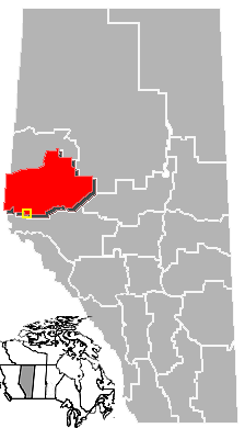 Location of Grande Cache, Census Division No. 18, Albera